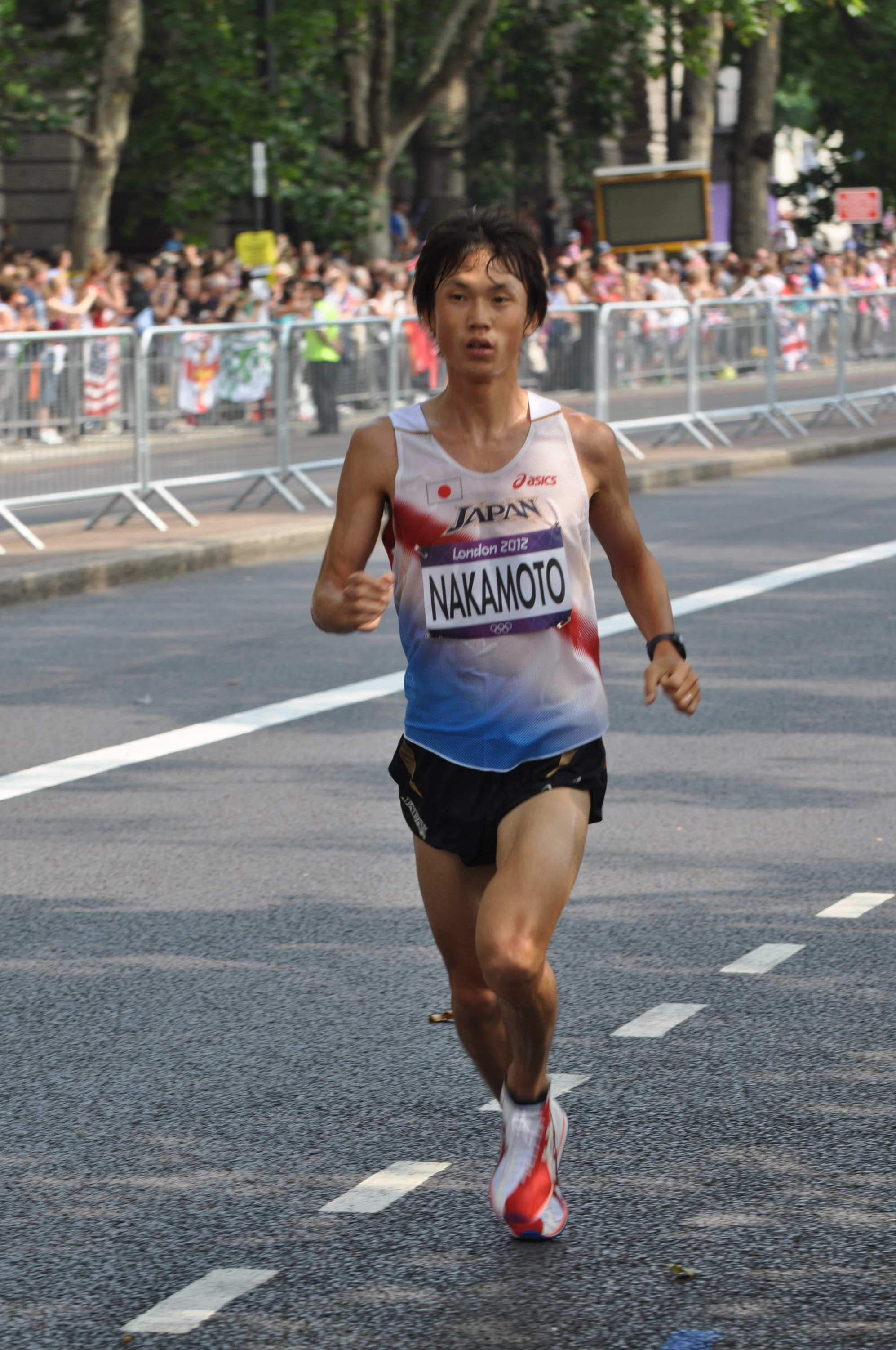 Kentaro Nakamoto from the 2012 Olympic Marathon